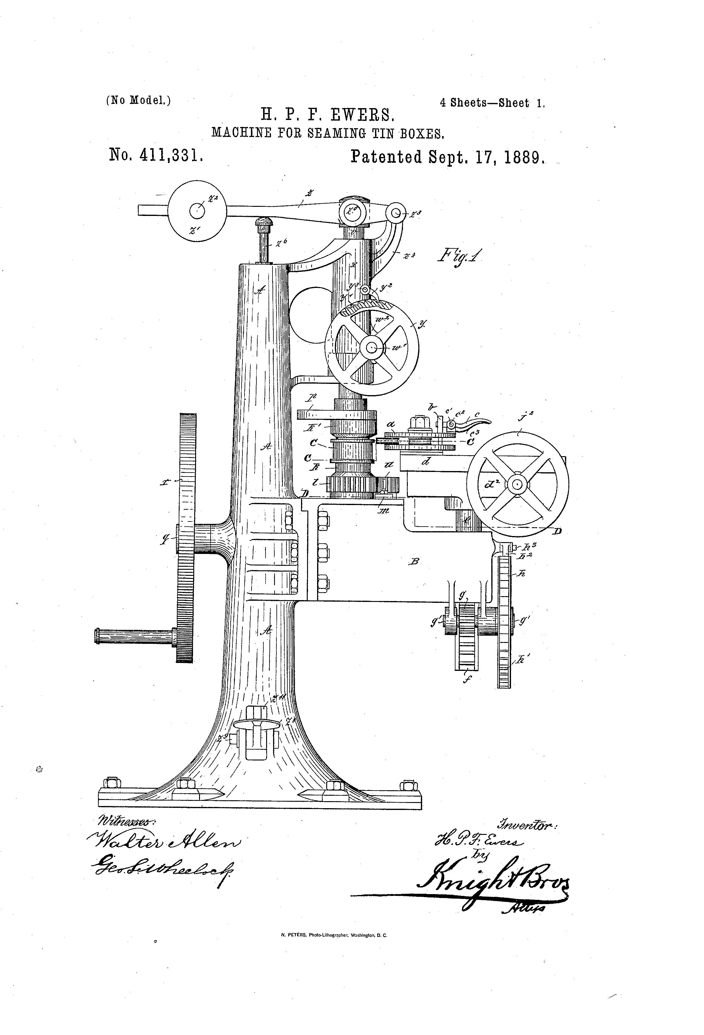 Patent drawing of Machine for seaming tin boxes by H.P.F. Ewers of Lübeck